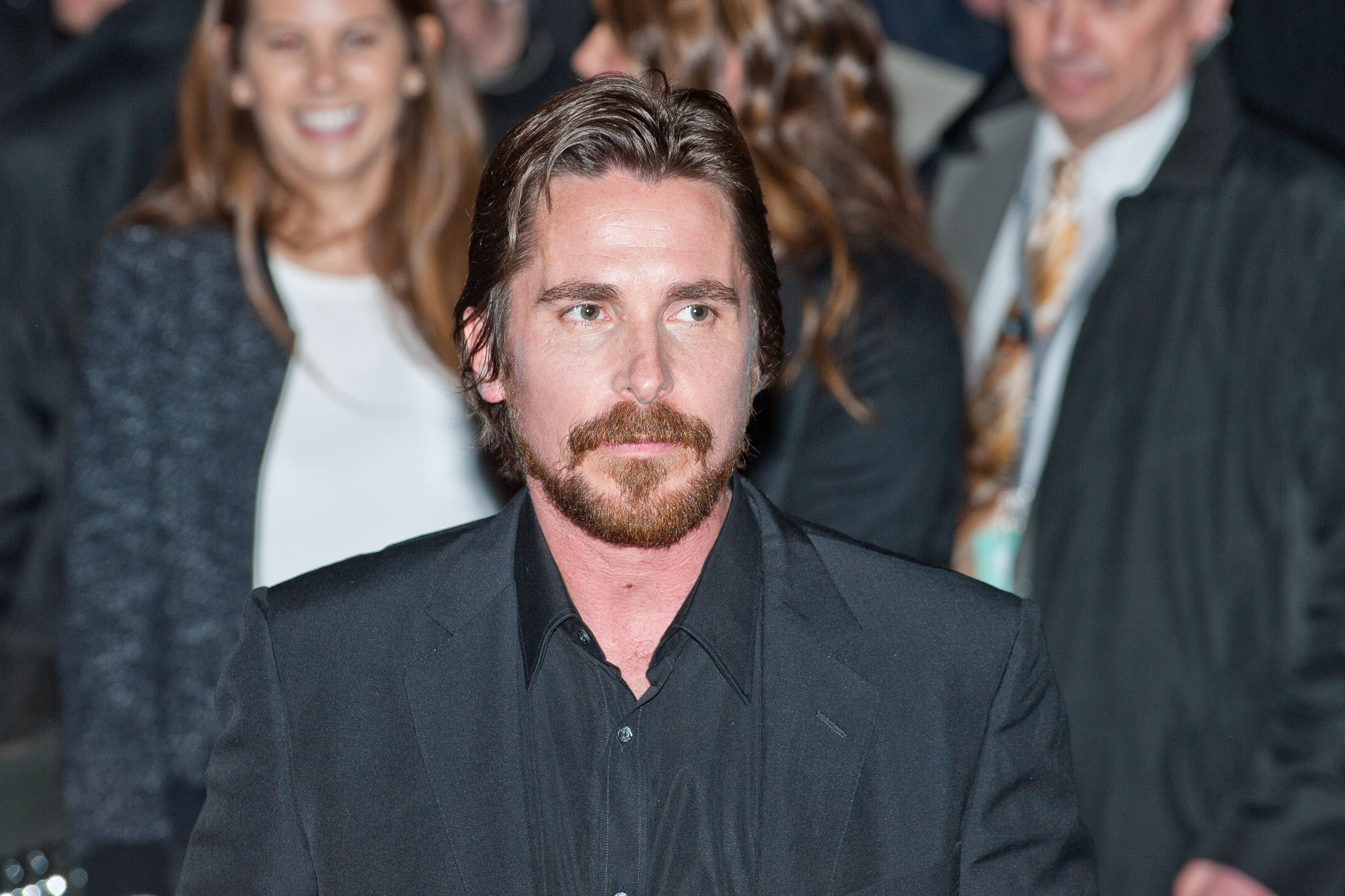 Actor Christian Bale leaving the press conference for the movie "American Hustle"